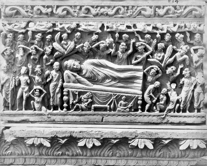 Loriya Tangai Nirvana of the Buddha